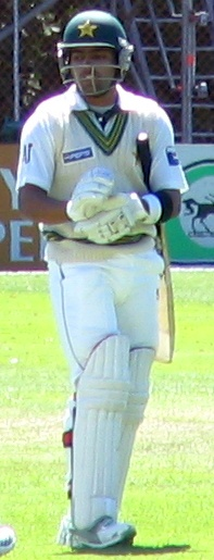 Pakistan cricketer Umar Akmal, during a test match between New Zealand and Pakistan at the University Oval in Dunedin, New Zealand.